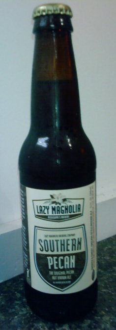 Lazy Magnolia Brewing Company's Southern Pecan Nut brown ale (beer). Made in Mississippi. The only beer in the world made using the Pecan nut. I took this photo right before I popped the top on it and drank it. Yum yum.